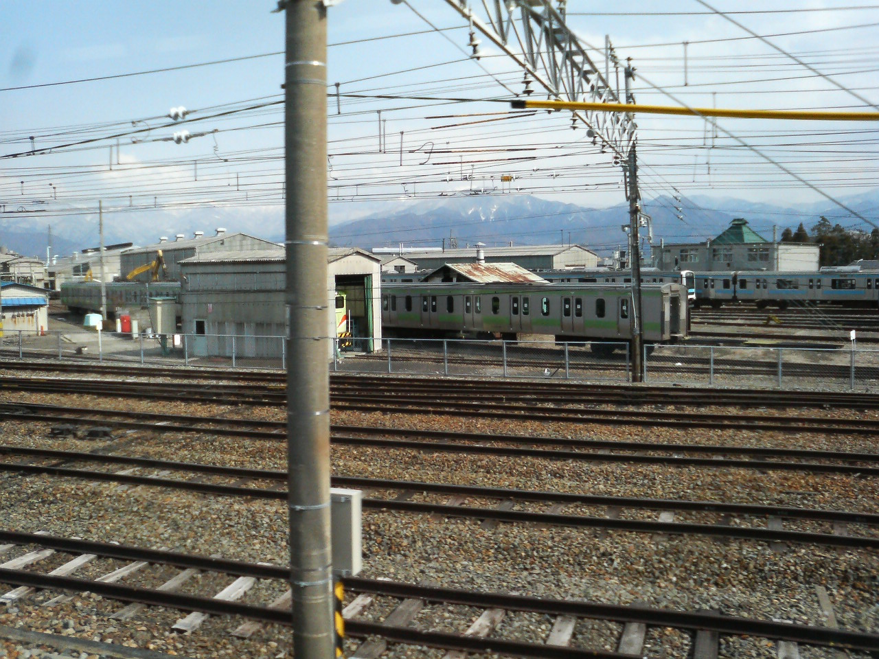 E231-500 series (six-door cars) train at JR East Nagano General Rolling Stock Center. These cars will be scrapped.